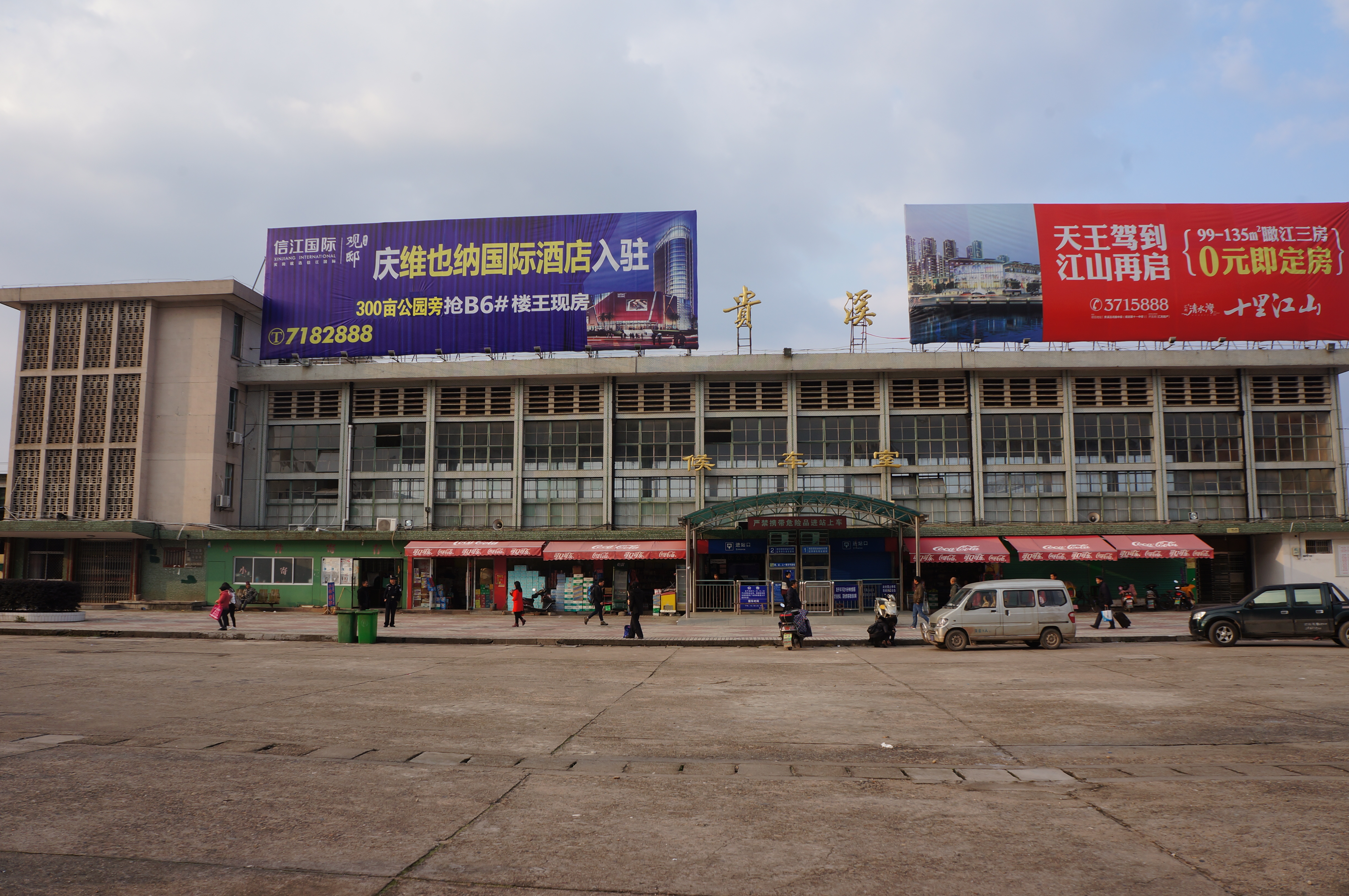 201612 Guixi Station